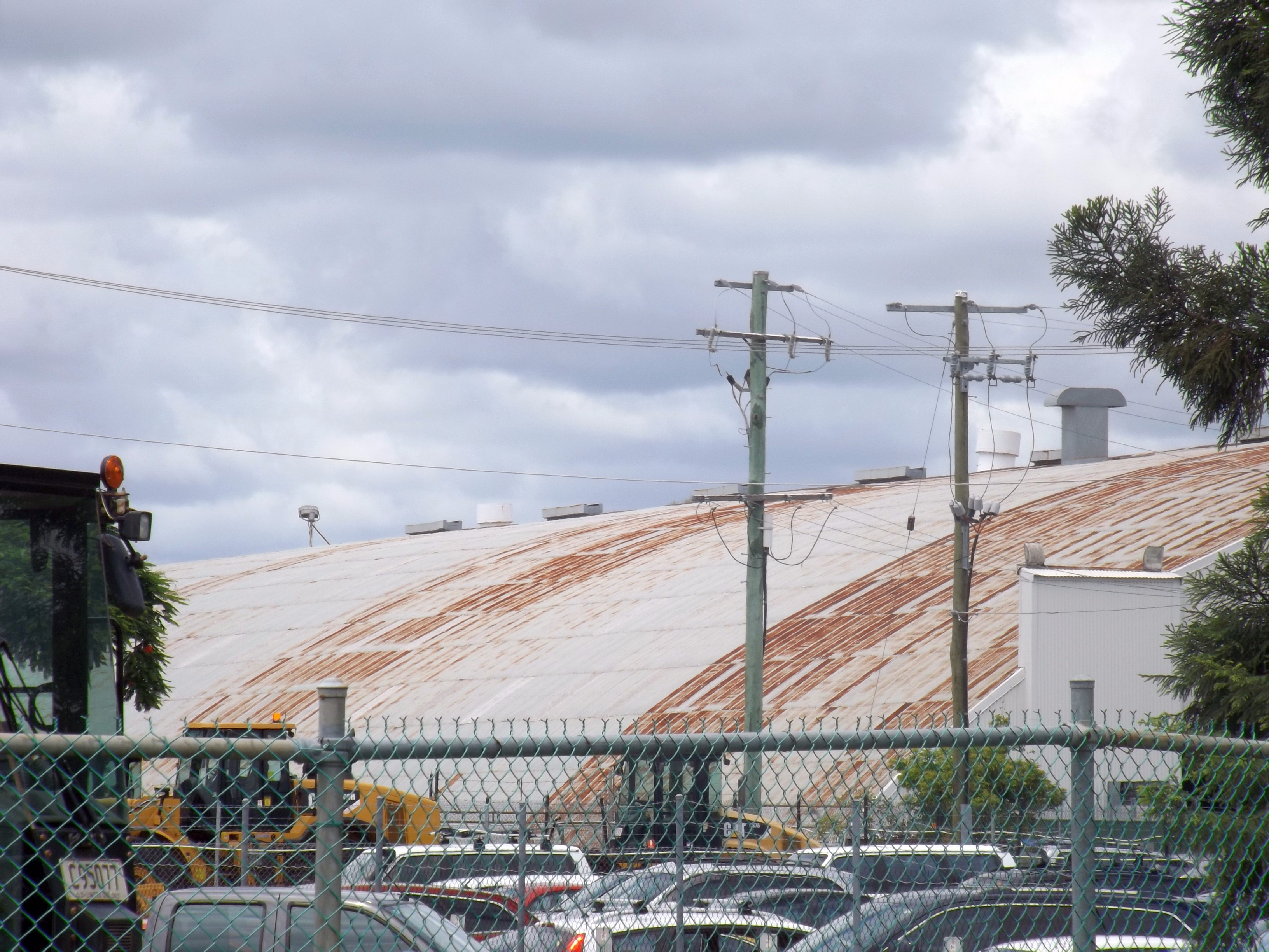 Photo of the roof of Igloo No. 4 at Archerfield, Brisbane, Queensland, Australia.